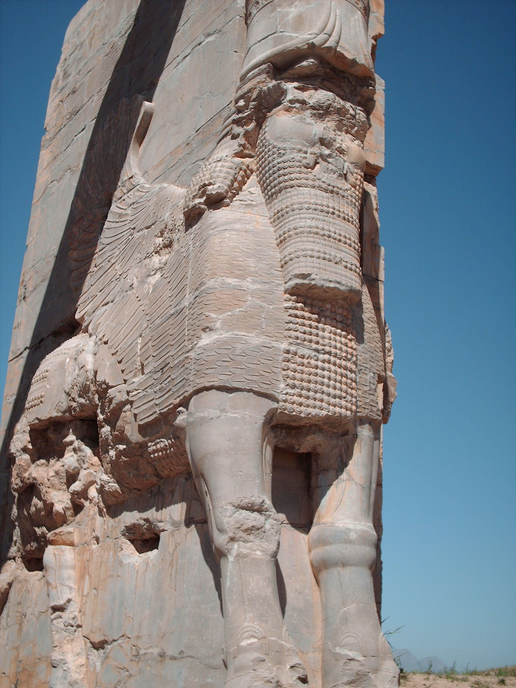 Lamassus, gate of all nations, Persepolis, Iran